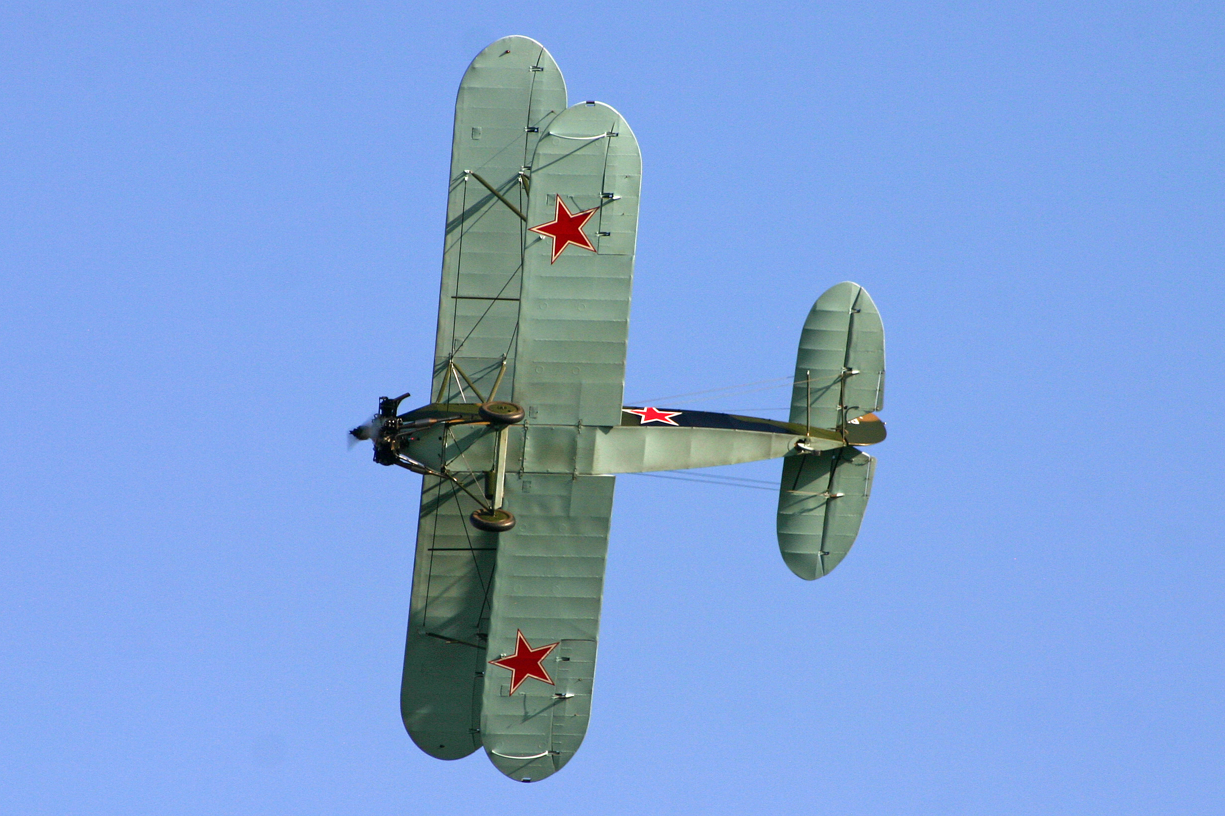 Actually a Polish built CSS-13, msn 0094. Displaying at Old Warden. 02-10-2011